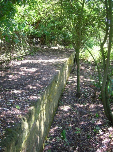 "Golf Club" halt on the Dyke line 50°52′12.70″N 0°12′0.46″W / 50.870194°N 0.2001278°W